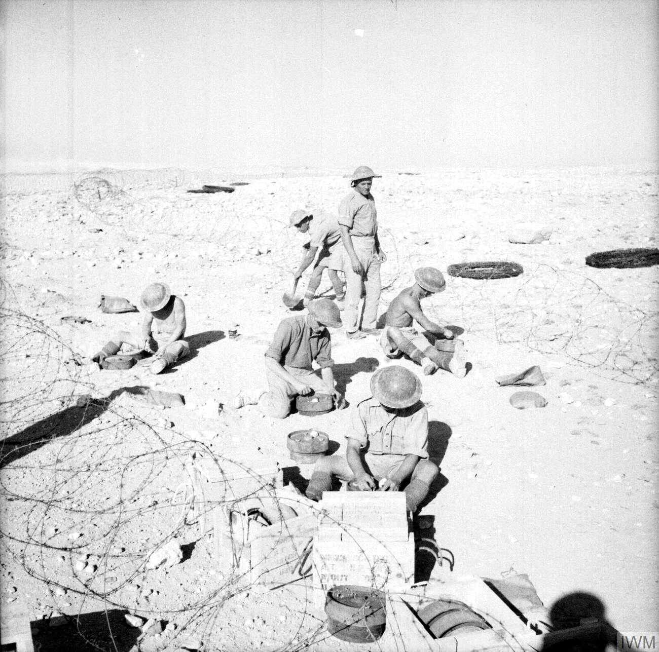 The British Army in North Africa Troops of the King's Own Royal Regiment (Lancaster) laying a minefield, Egypt, 30 October 1940.